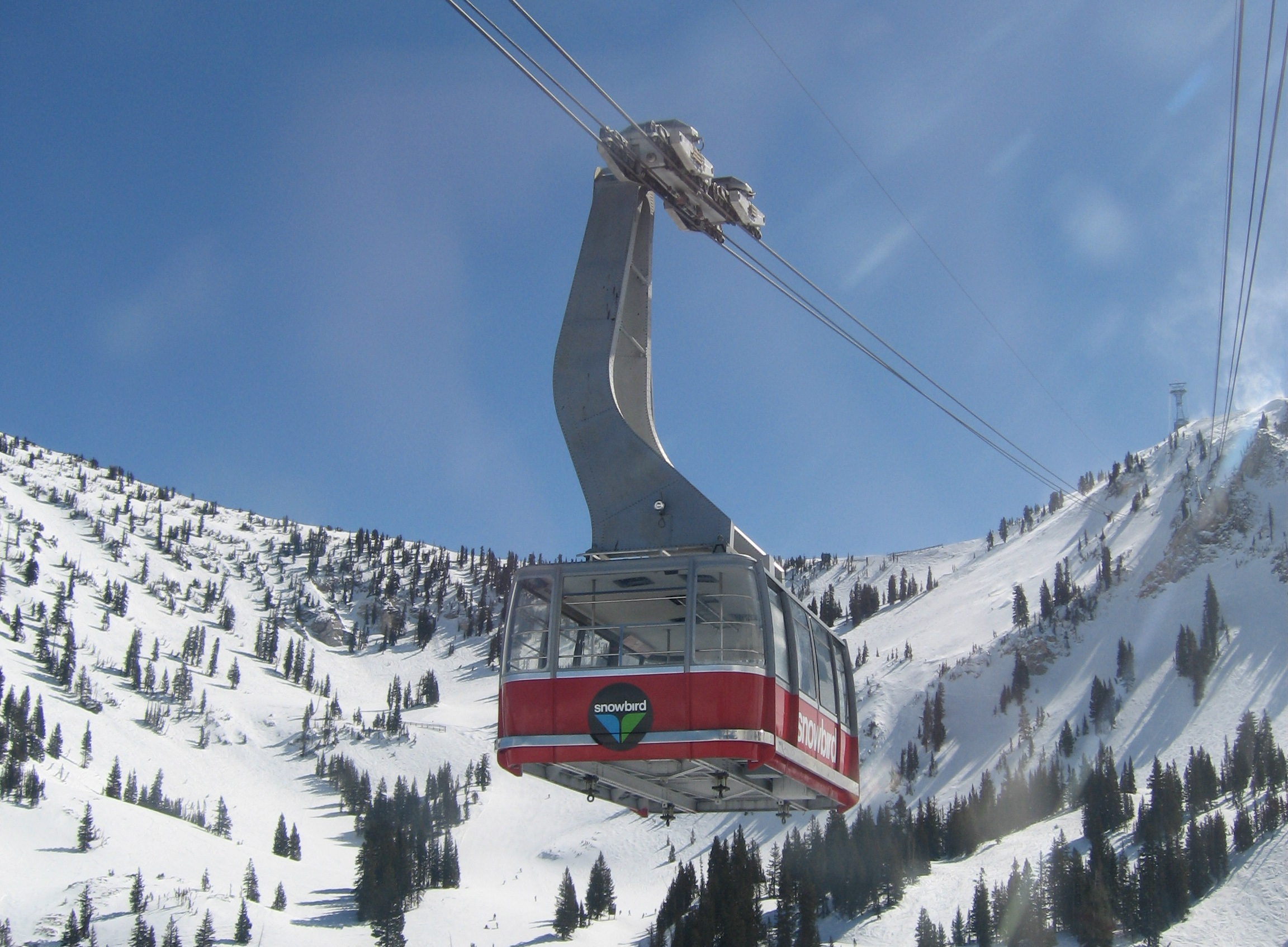 A Garaventa Tram at Snowbird, Utah